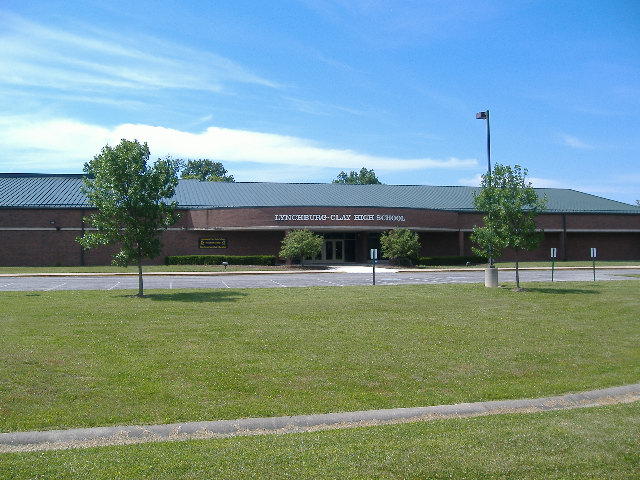 Lynchburg-Clay High School located on State Route 134 south of Lynchburg, Ohio.